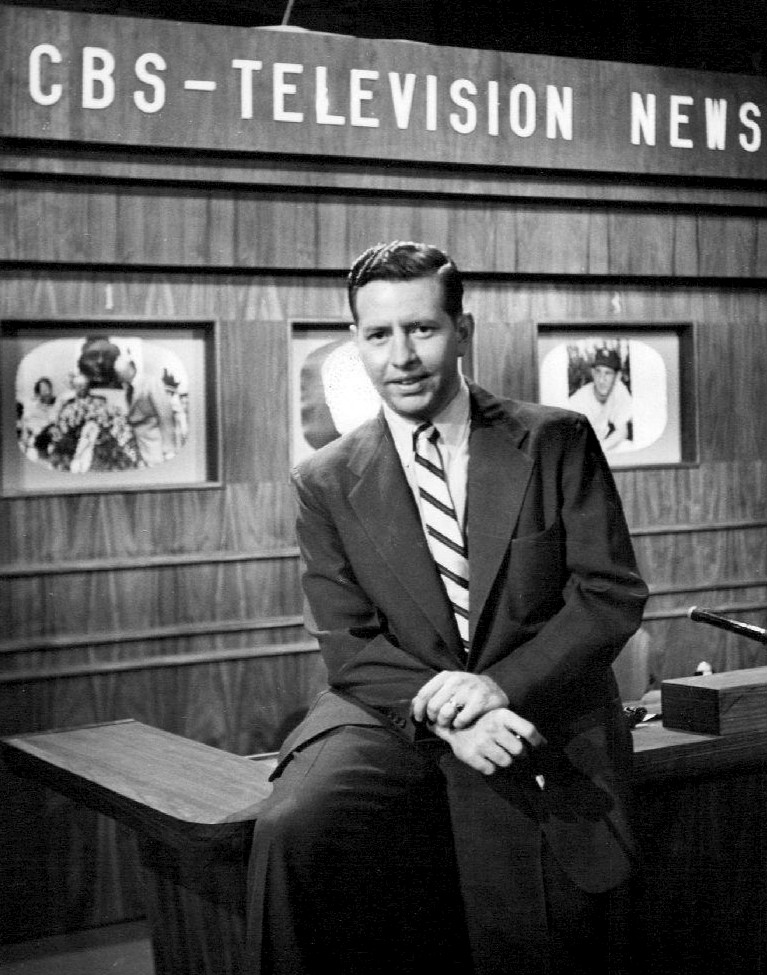 Photo of Douglas Edwards on "Douglas Edwards With the News". This was the first CBS network evening news television program, beginning in 1950.